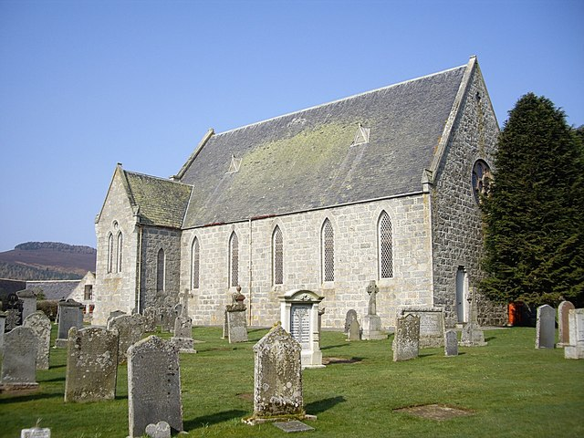 Tullynessle church South wall.